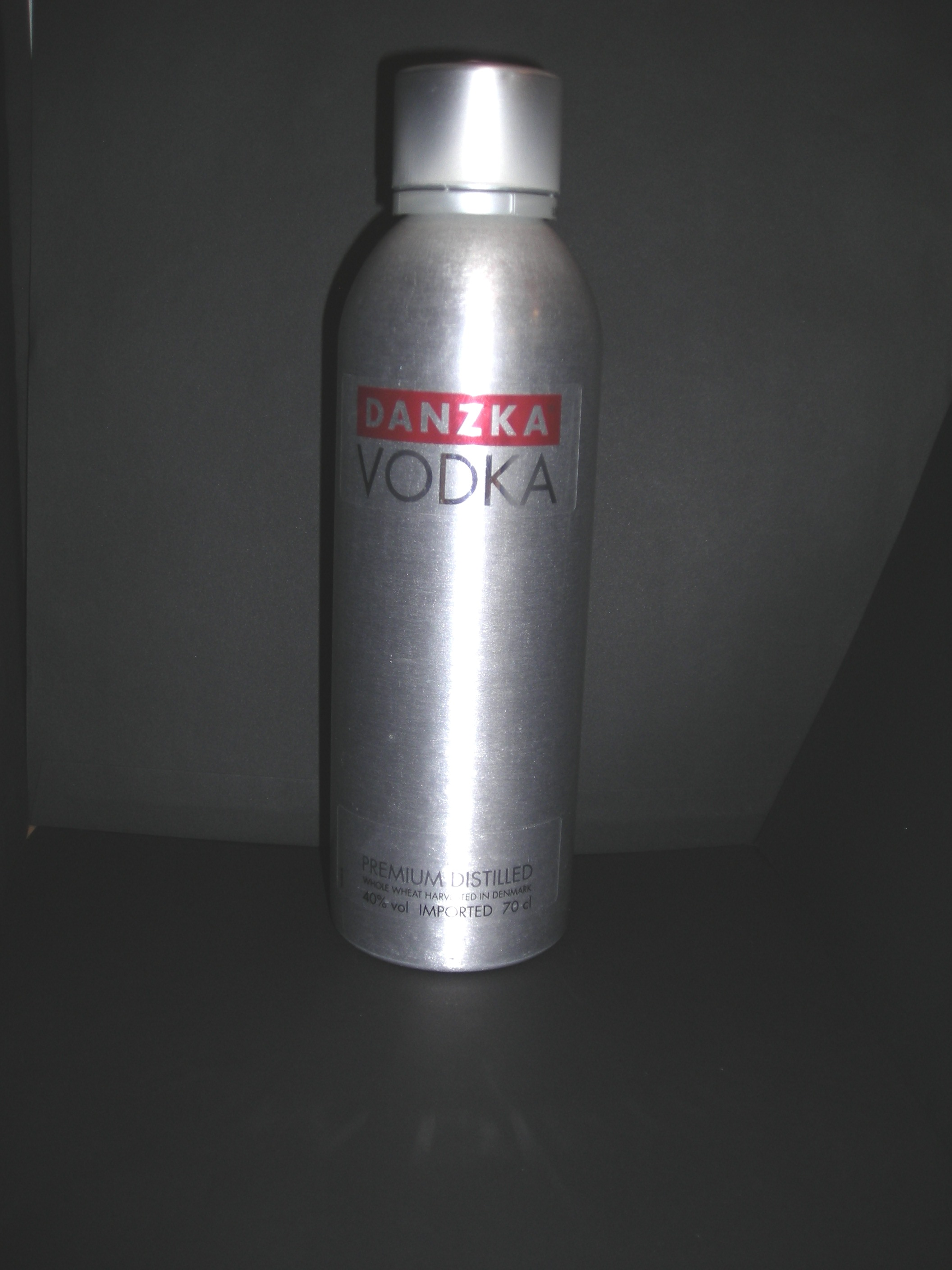 DANZKA Vodka as it looks now - 2011